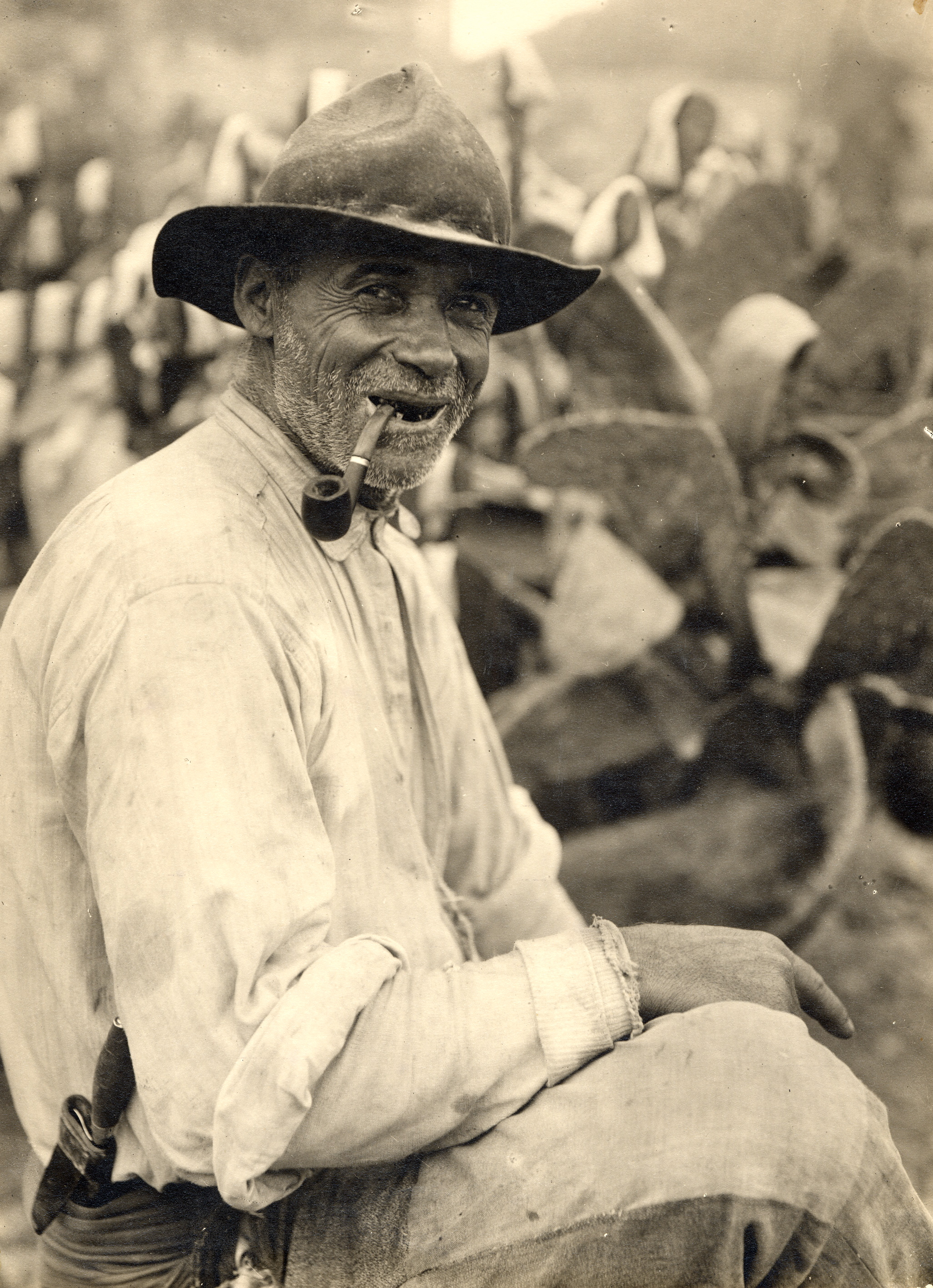 Cochineal day laborer from Arucas (Gran Canaria) wearing at his cumberband a "cuchillo canario" (Canary knife), typical of the island.